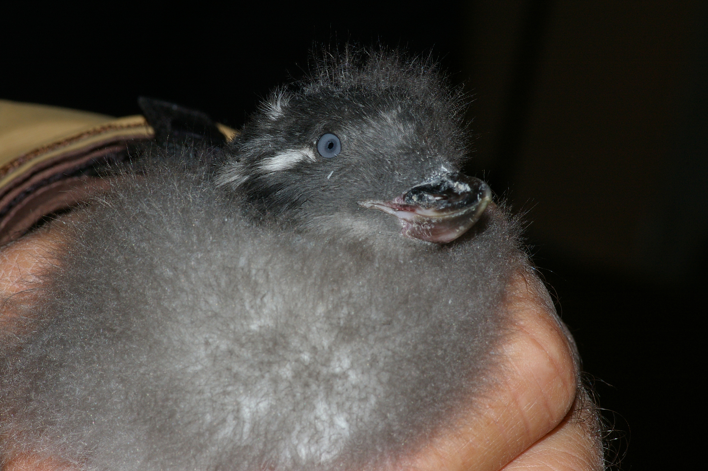 GAMBELL, AK - WINGS TOUR 8/29 - 9/8/2008 and after